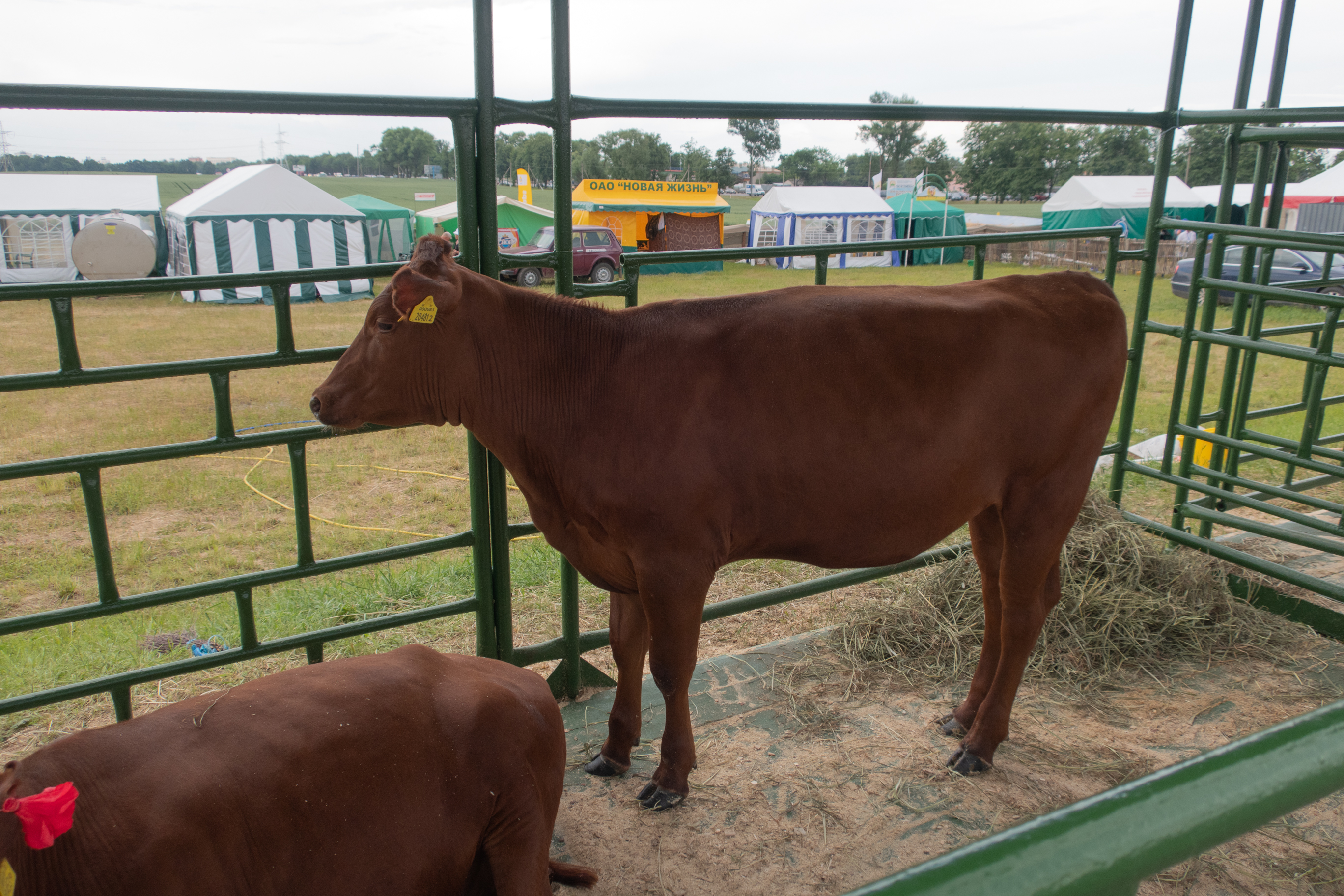 Belarusian red cow. Photo taken at Belagro-2019 exhibition (Minsk district, Belarus)